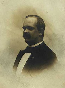 Poul Christian Julius Valentiner (1850-1915), Danish politician, lawyer, and bank manager